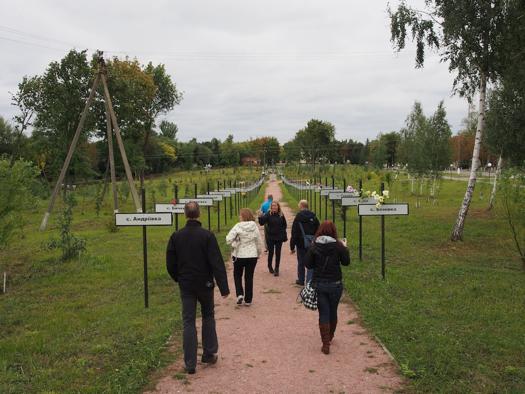 Wormwood Star memorial